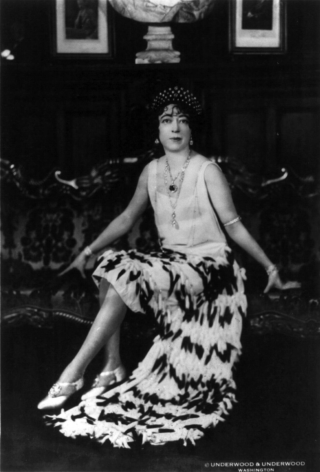 Evalyn Walsh McLean, American socialite and heiress